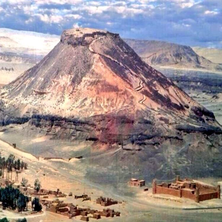 قصر الأمير نواف بكاف